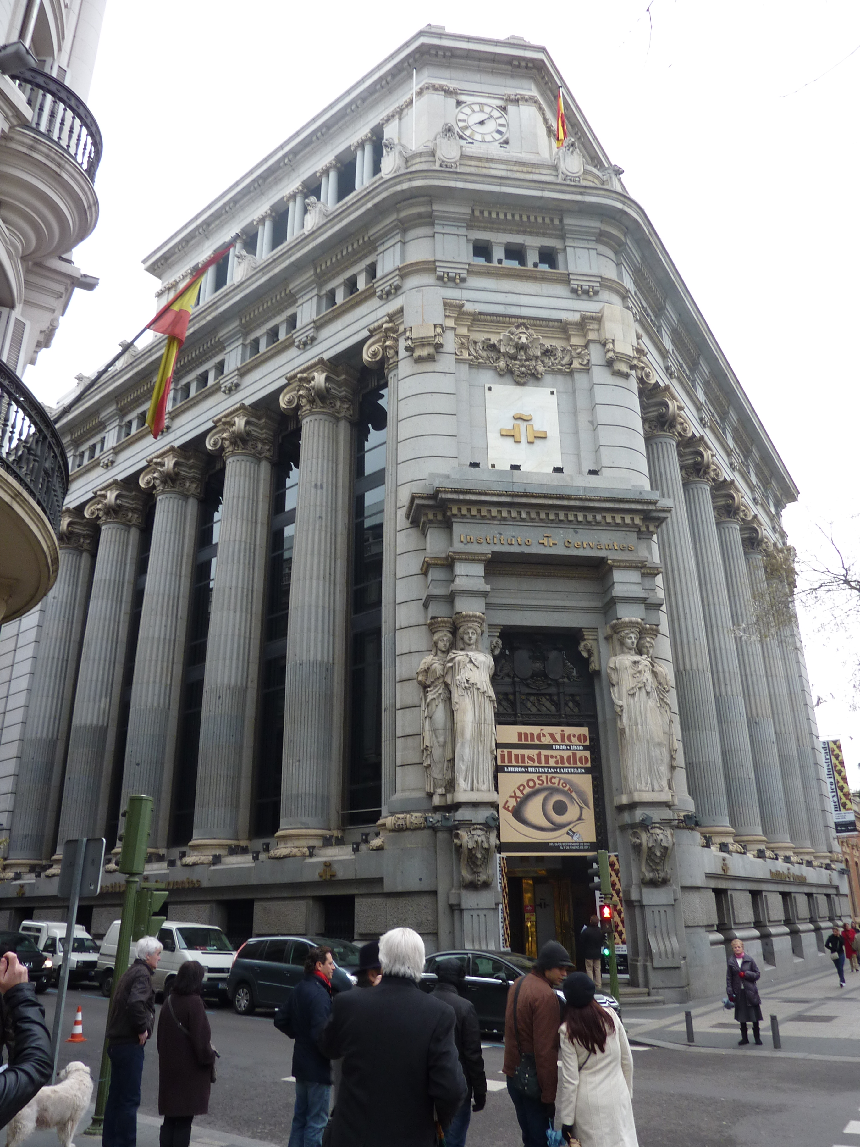 View of Cervantes Institute headquarters (former Río de la Plata Bank's building).